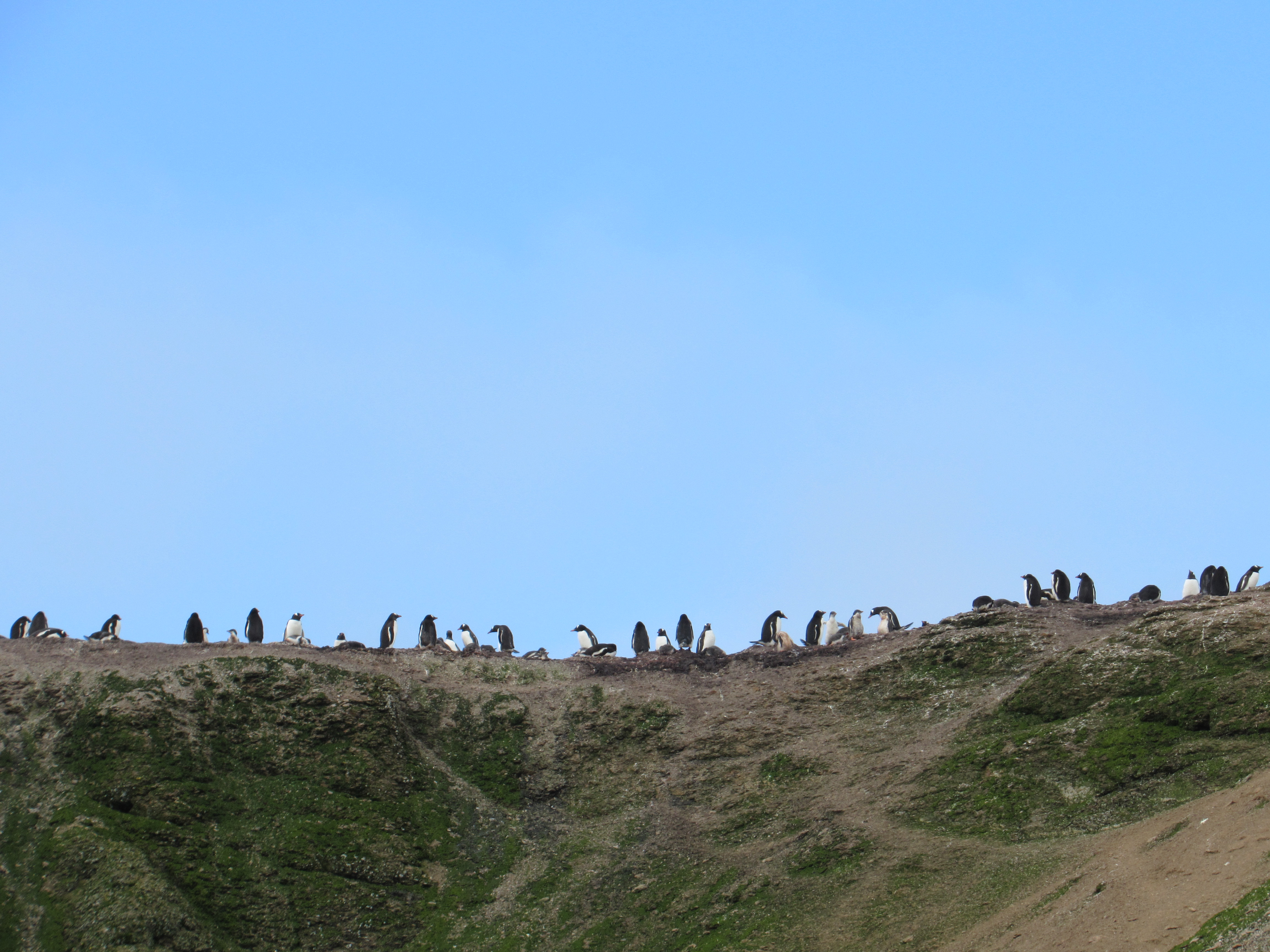 Gentoo penguins on Ardley Island, Antarctica (27 December, 2018)